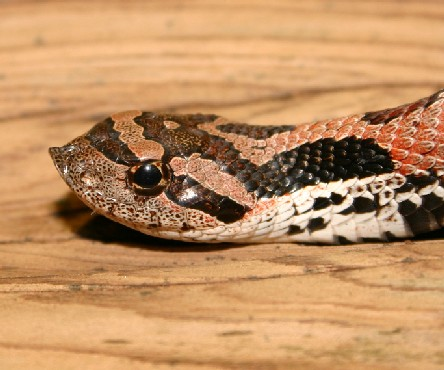 Caught on the Sawdust ranch near Somerville, TX Canon 300D